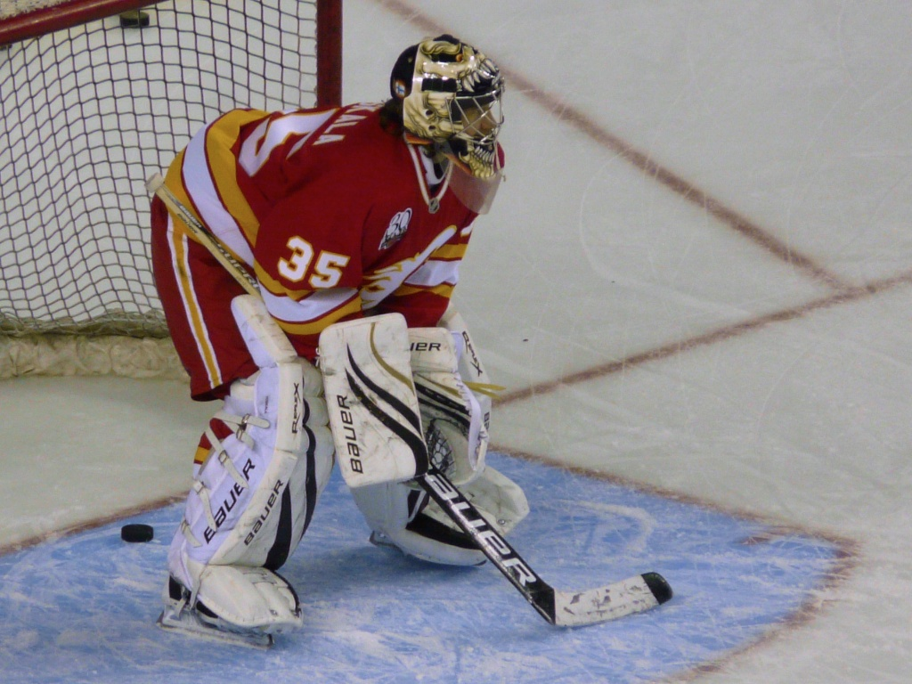 Vesa Toskala in a Calgary Flames jersey.